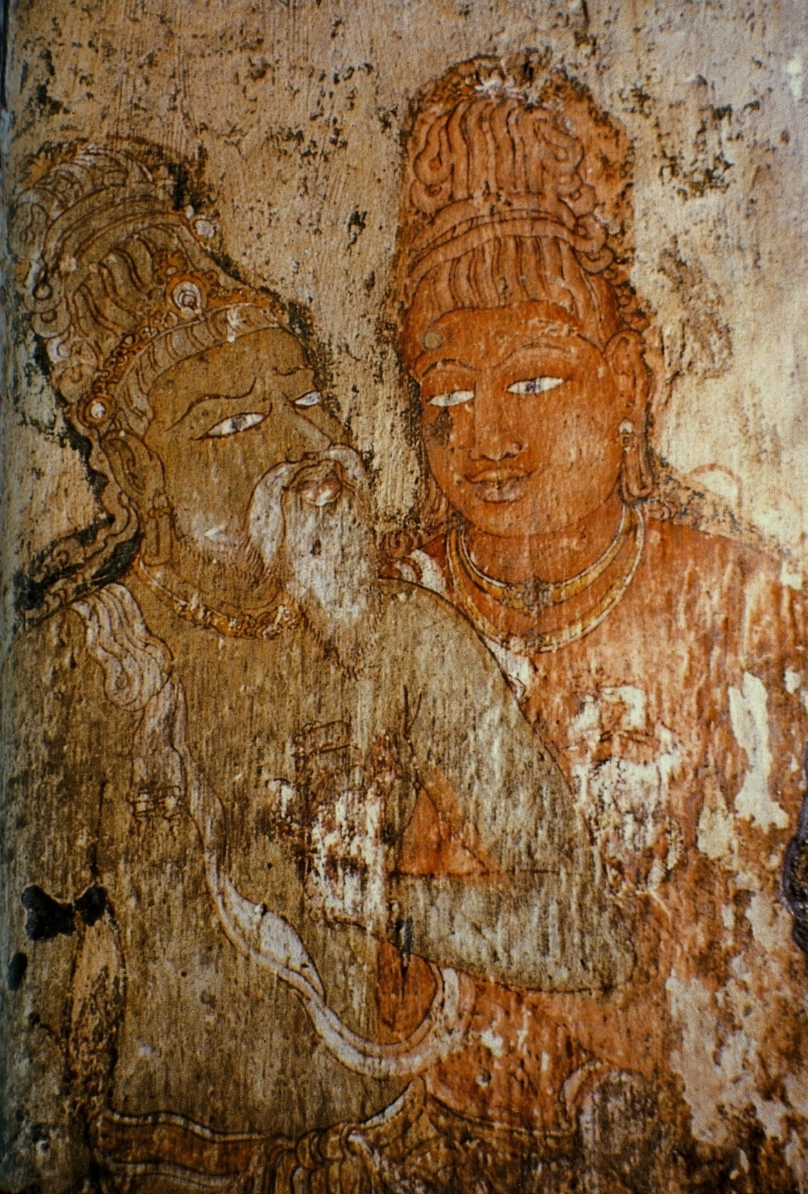 King Rajaraja Chola and guru (teacher) Karuvurar, Brihadeesvara temple, Tamil Nadu, 11th century. This is the earliest royal portrait in Indian painting. In keeping with ancient traditions, the guru is given importance and the king is shown standing behind him. This may not be an exact rendering of the king's features, rather a stylised representation.